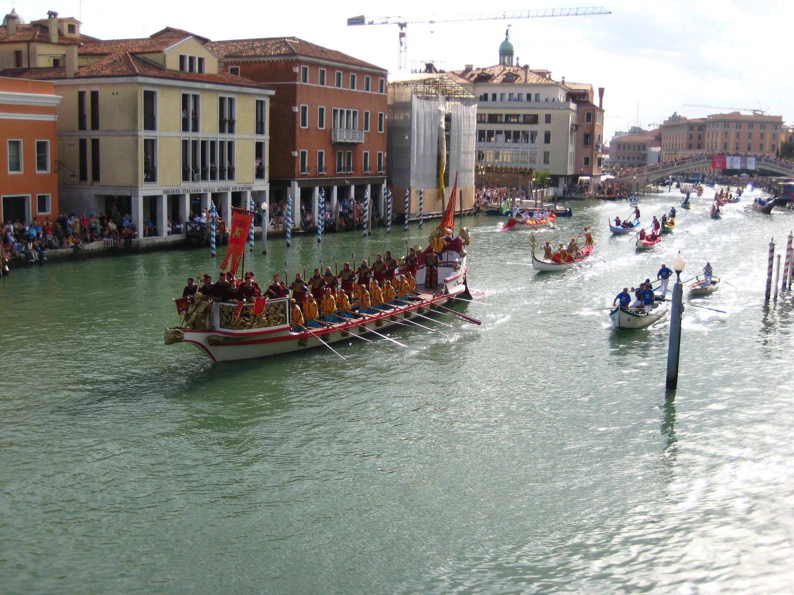 The 2008 edition of the Regata Storica di Venezia, in Venice (Italy), being a regatta in historical costumes.